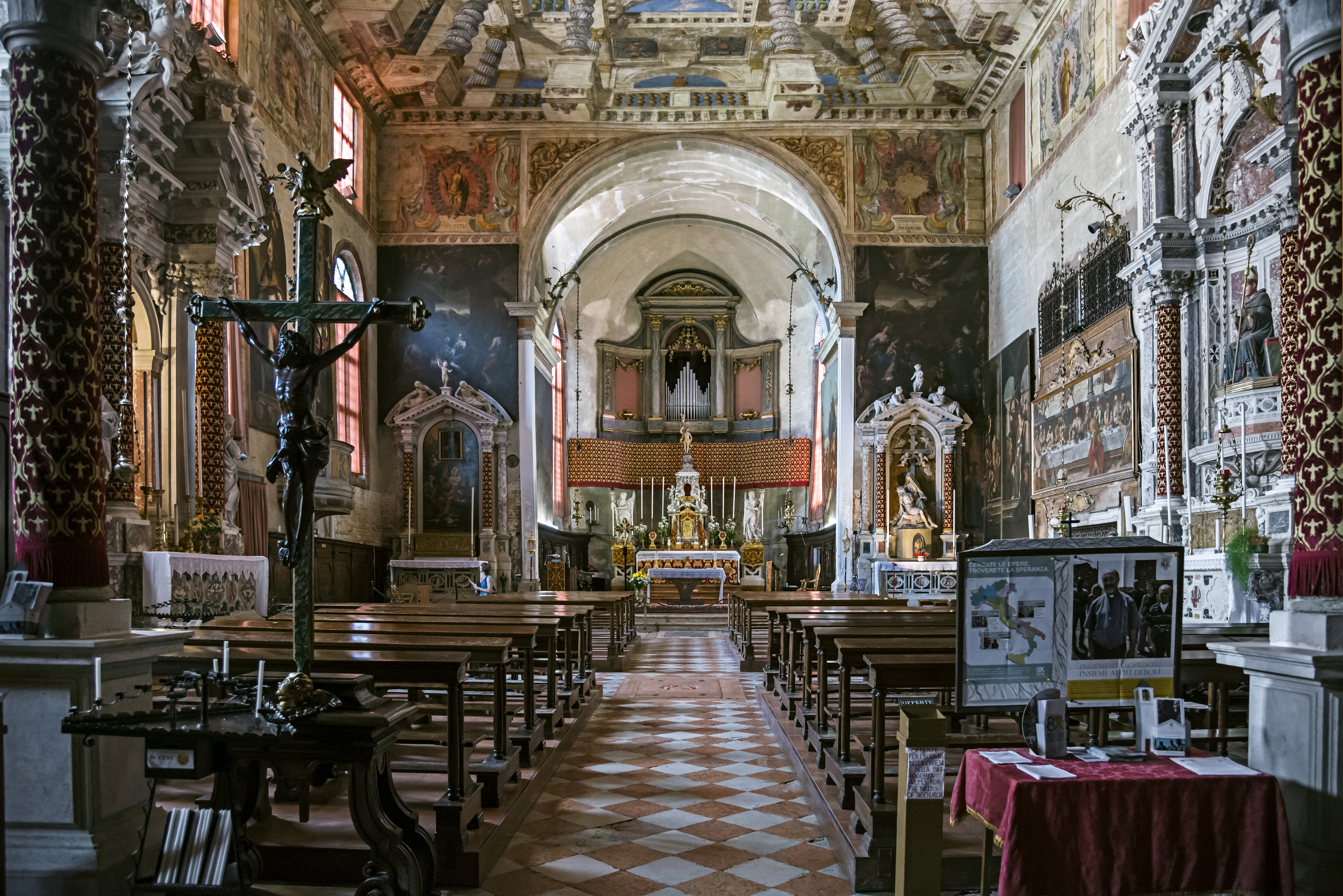 Sant'Alvise, Venice - View of the nave